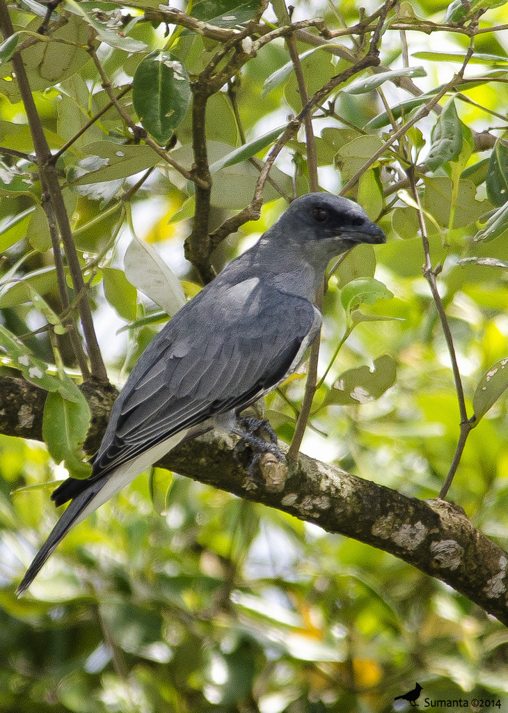 Large Cuckooshrike (Coracina macei) at Dobanki, Sundarban Tiger Reserve